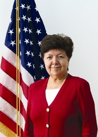 Former United States Ambassador to Argentina